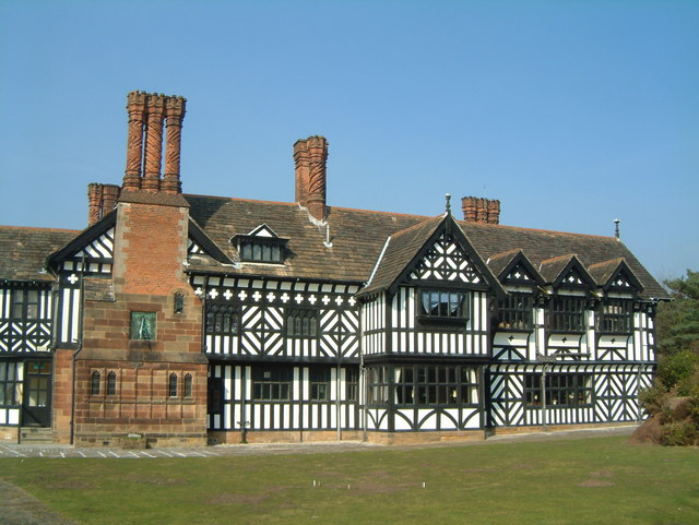 Hillbark House II Another (closer) view of Hillbark House